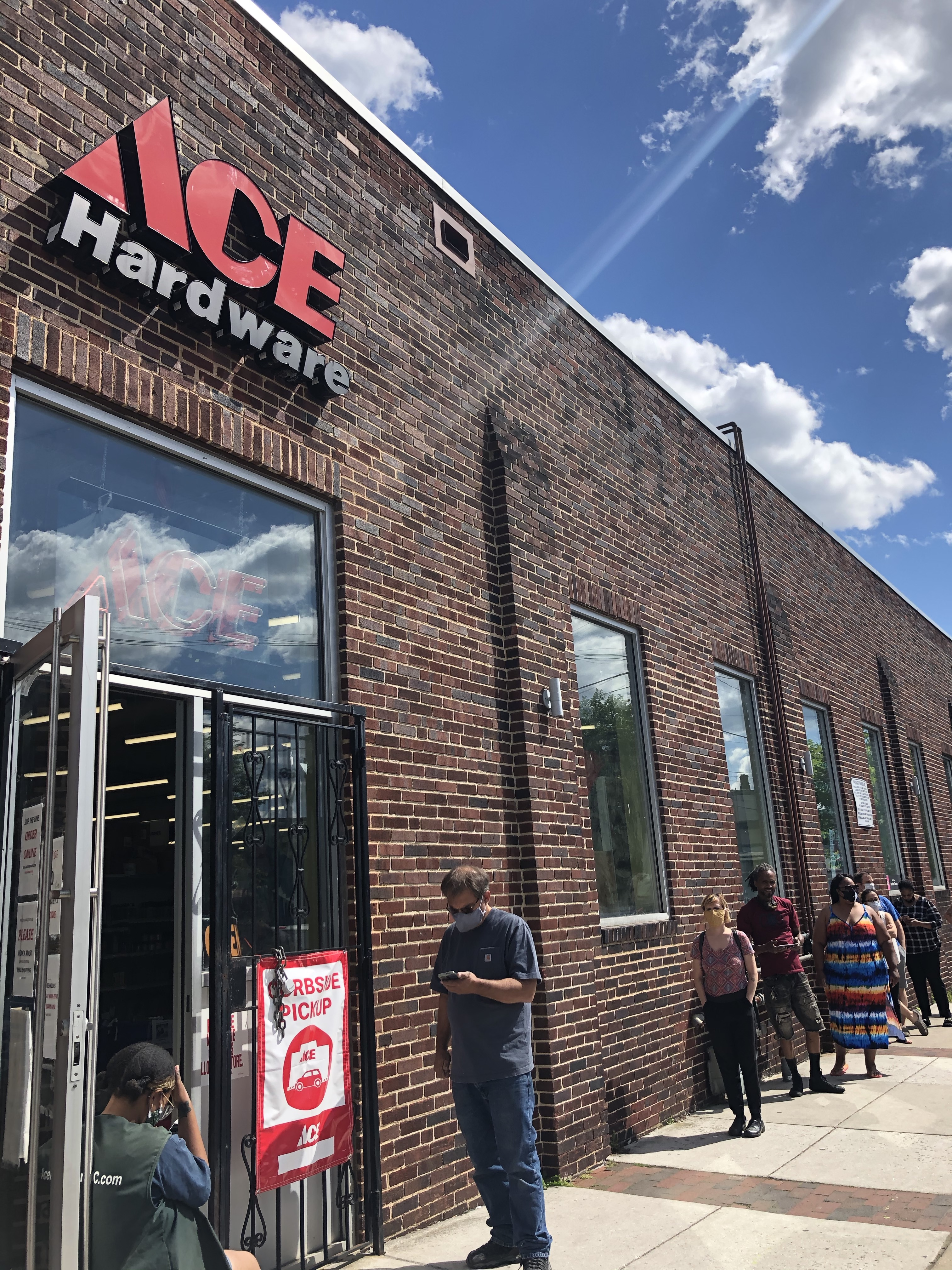 Customers waiting outside ACE Hardware in Baltimore, MD on May 31, 2020 using social distancing practices during the COVID-19 pandemic.